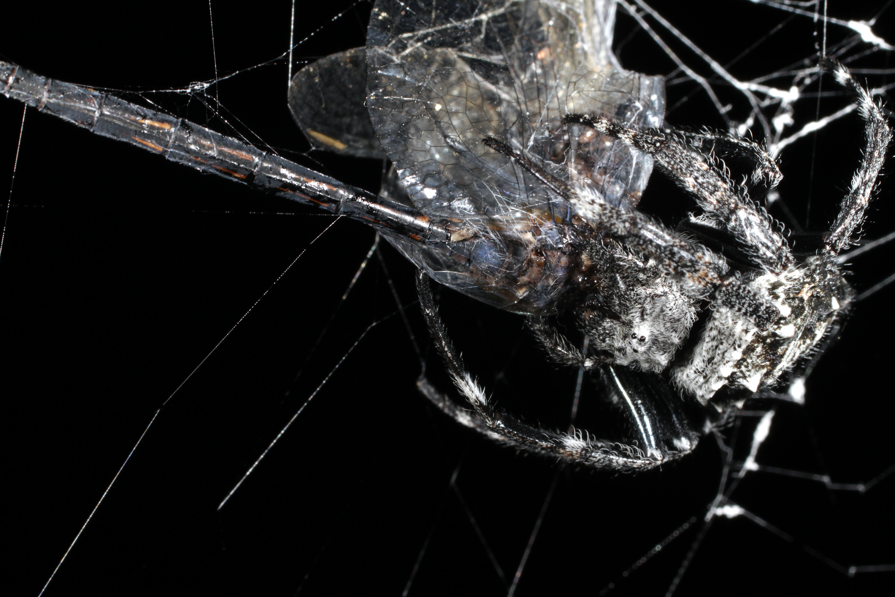 Darwin's bark spider eating dragonfly.